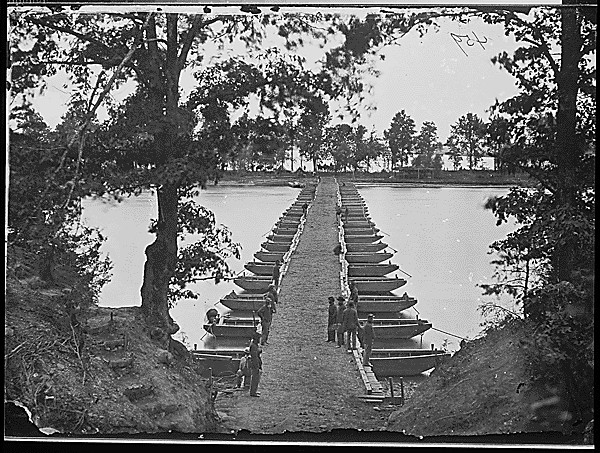 Lower pontoon bridge, Deep Bottom, James River, VA